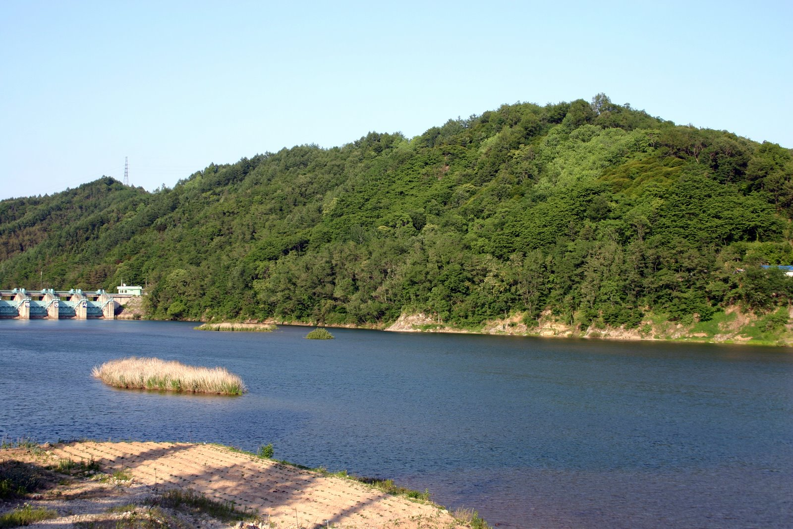 A view of Andong City, Gyeongsangbuk-do, South Korea